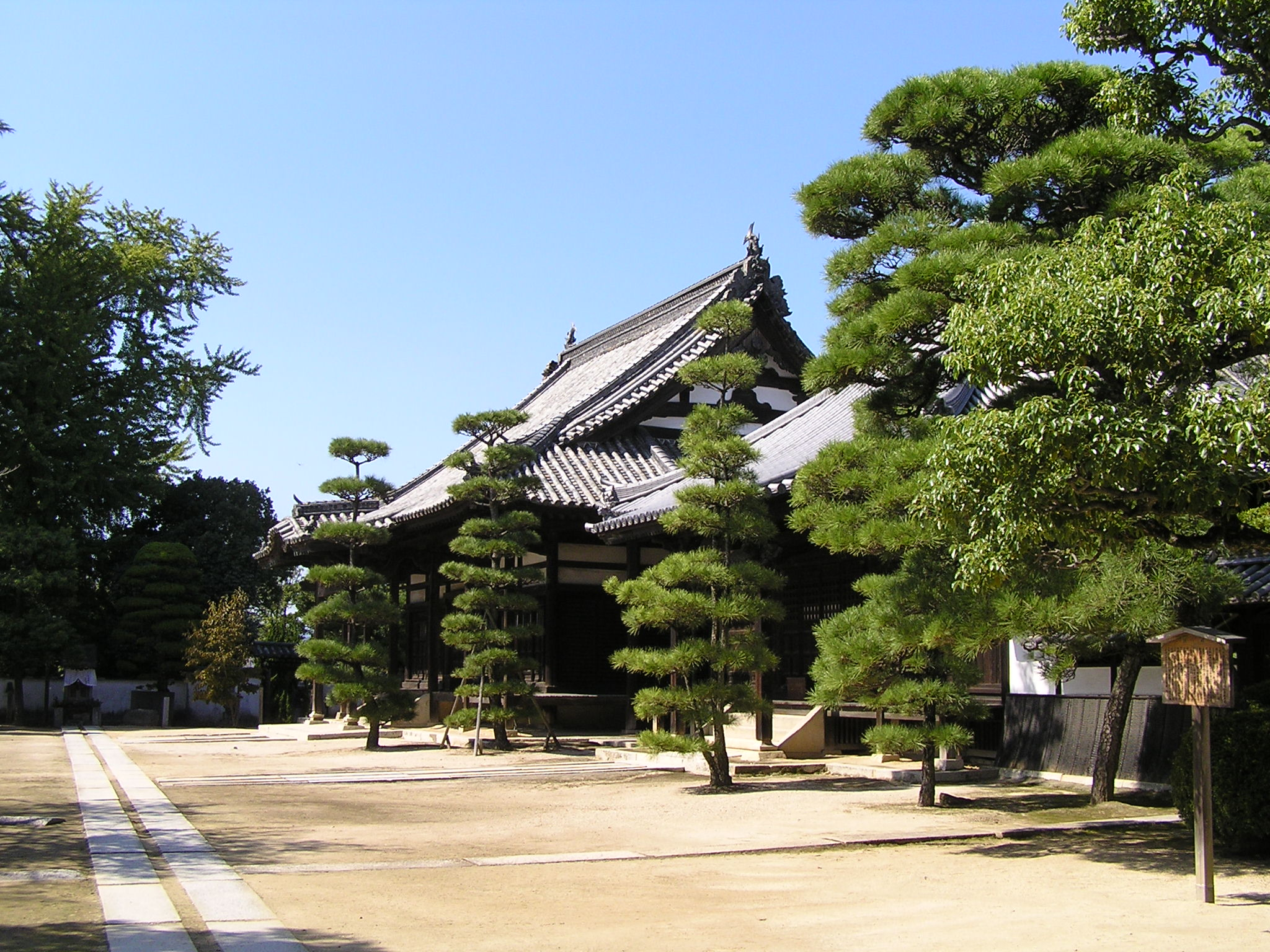 Main temple in Kanryu-ji in Kurashiki City Hommachi.